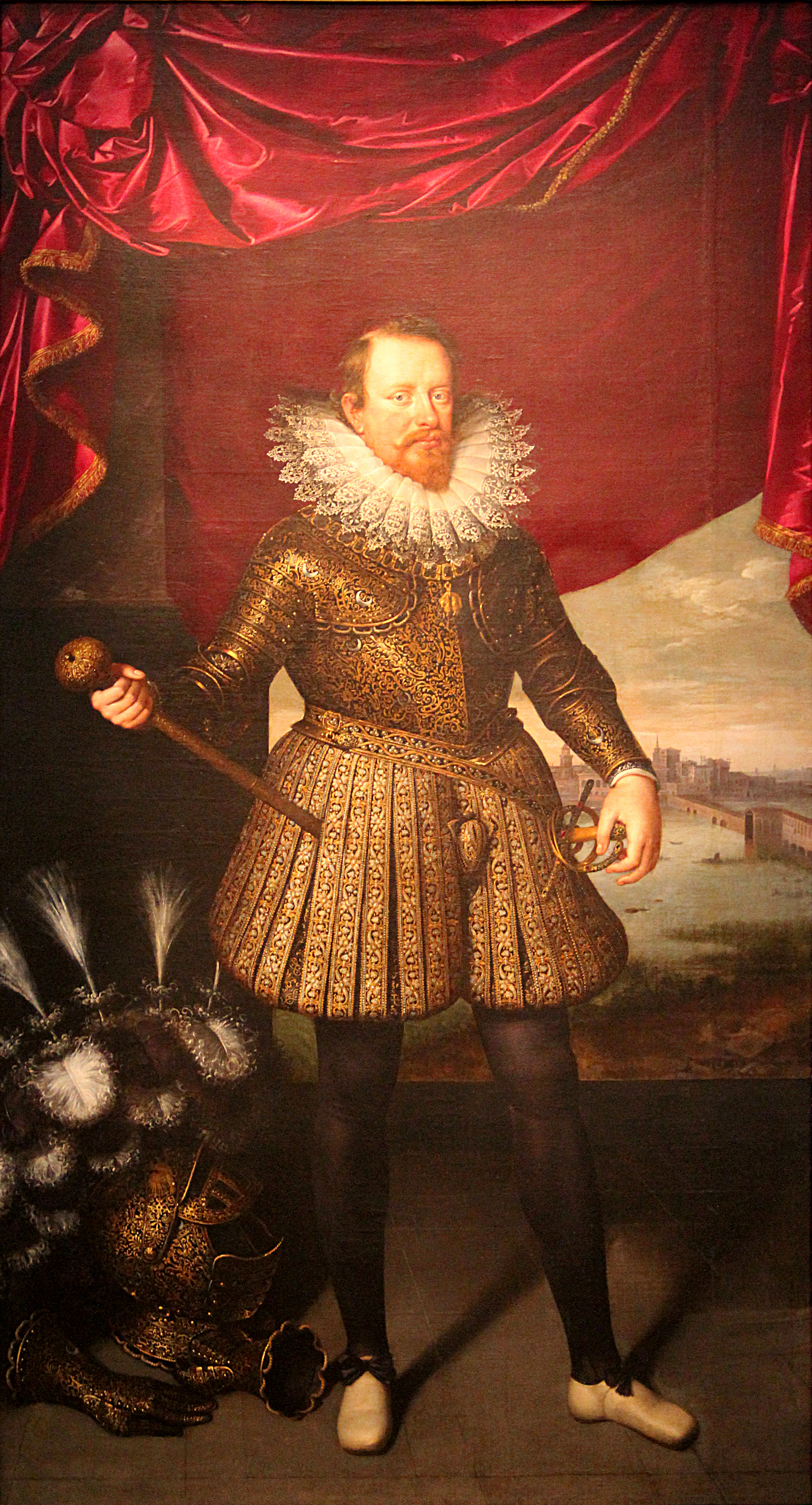 Vincenzo I Gonzaga, Duke of Mantua, husband of Elenora de Medici (older sister of Maria de Medici, Queen of France)